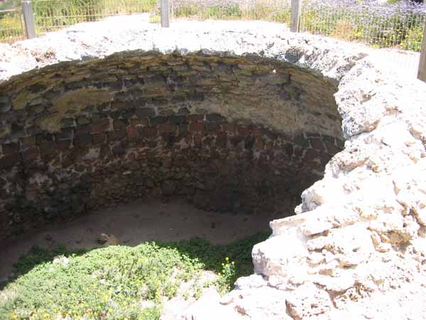 An Ottoman Lime Kiln. taken in Arsuf( Apollonia )